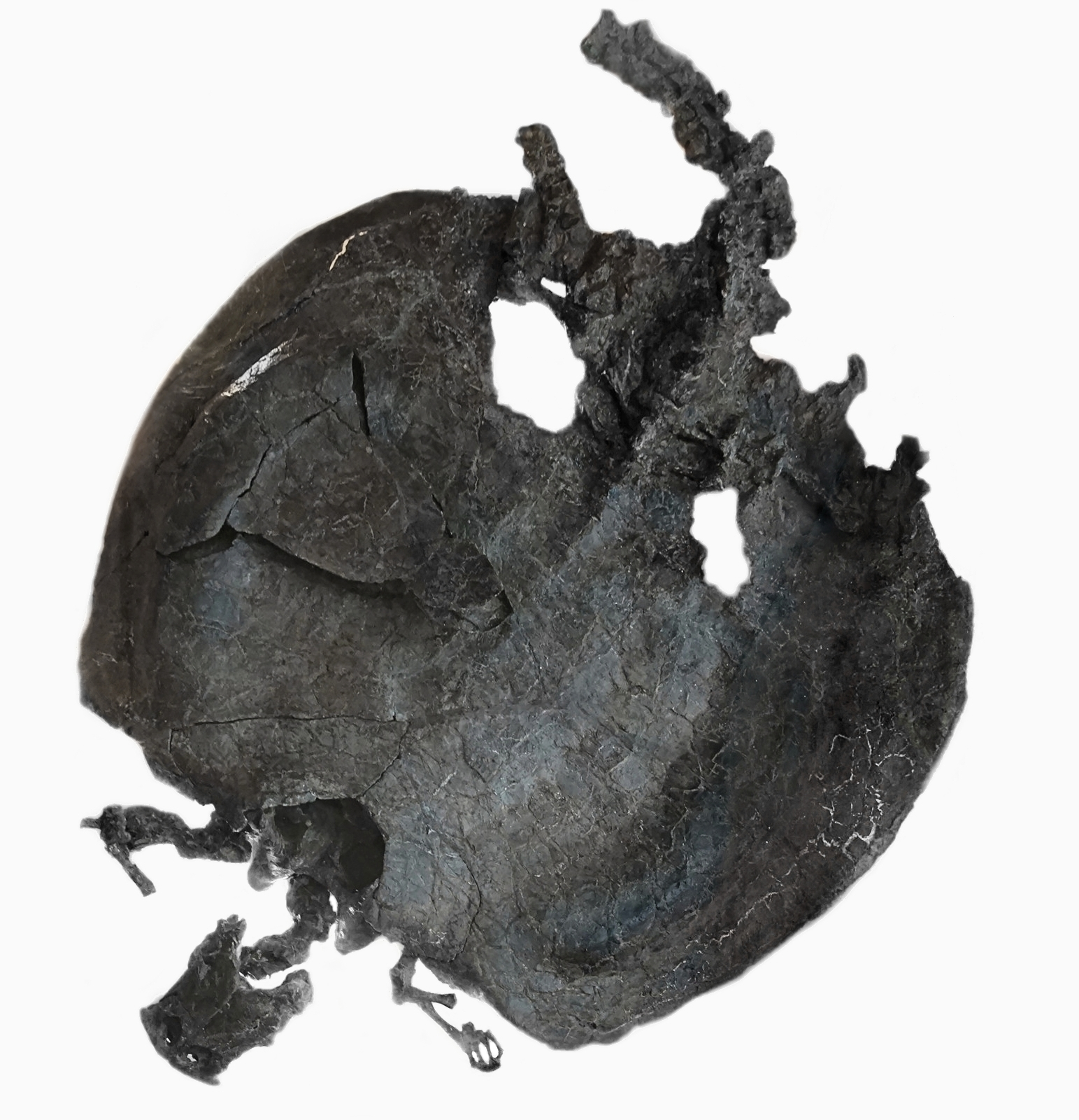 Henodus chelyops